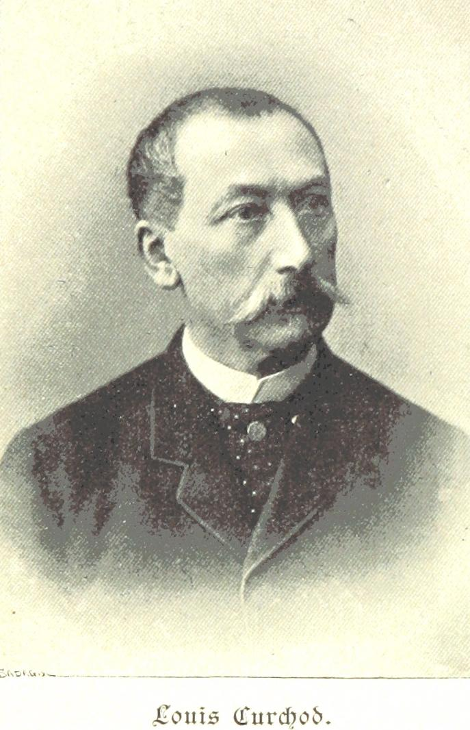 Louis Curchod Image taken from: Title: "Die Schweiz im neunzehnten Jahrhundert. Herausgegeben von schweizerischen Schriftstellern unter Leitung von P. Seippel" Author: SEIPPEL, Paul. Shelfmark: "British Library HMNTS 9305.h.2." Volume: 01 Page: 571 Place of Publishing: Lausanne Date of Publishing: 1899 Issuance: monographic Identifier: 003330970 Explore: Find this item in the British Library catalogue, 'Explore'. Download the PDF for this book (volume: 01) Image found on book scan 571 (NB not necessarily a page number) Download the OCR-derived text for this volume: (plain text) or (json) Click here to see all the illustrations in this book and click here to browse other illustrations published in books in the same year.